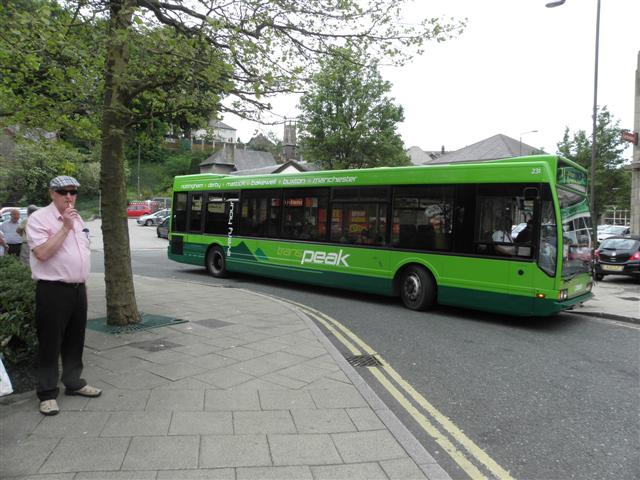 Green bus, Buxton. Pictured near Spring Gardens